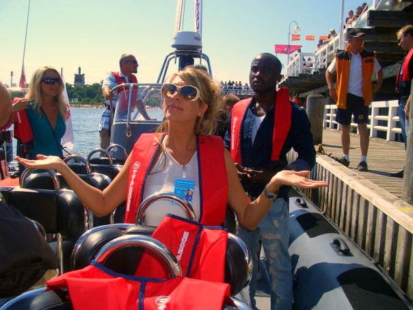 In-Grid in Sopot 2009